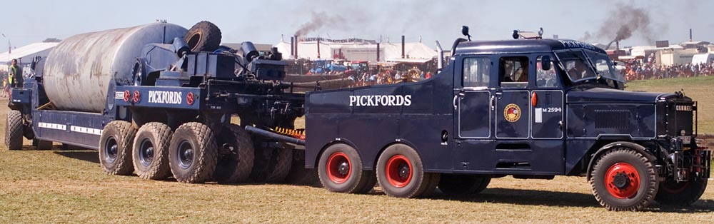 Pickfords heavy haulage. Author: Antony McCallum The tractor unit is termed a ballast tractor. It is a 1961 Albion-powered Scammell Super Constructor (M2594, registration number 876BGJ.